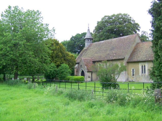 St Leonard's Church, Hartley Mauditt This little country church, a gem of Norman architecture, standing beside its pond, has been associated with famous names in history - John of Gaunt, King Henry IV, the persecutions of Queen Mary and the deprivations of Cromwell.